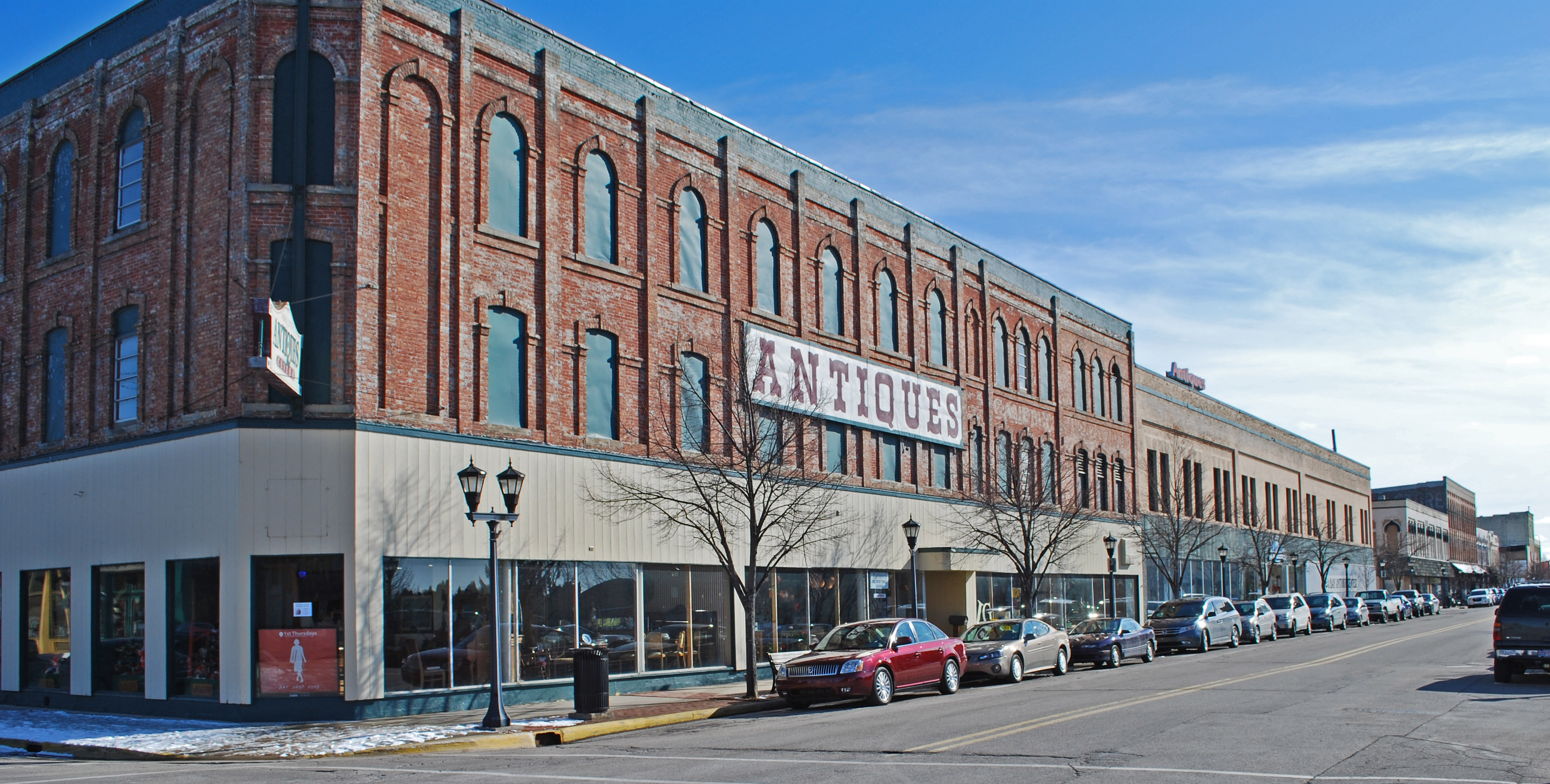 Downtown Bay City, Michigan Contributing properties to the Bay City Downtown Historic District.